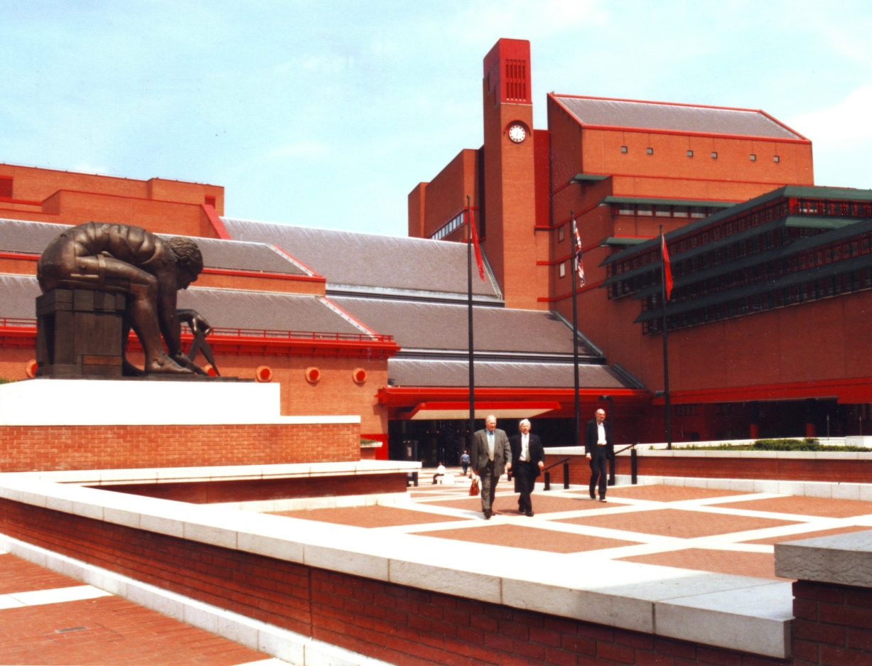 British Library